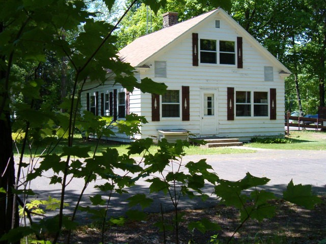 Bergland Ranger Station - Office